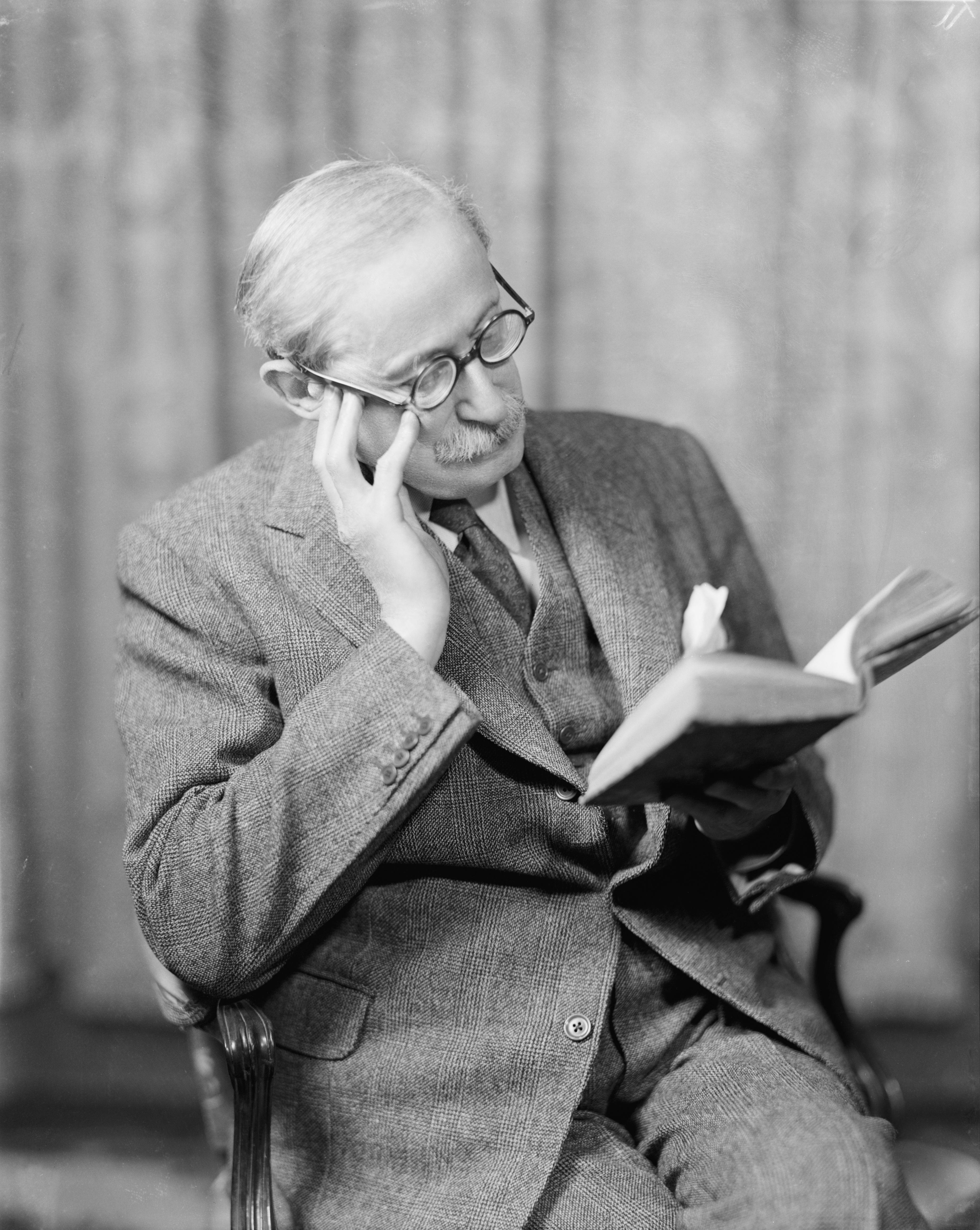 Leon Blum, Amb.